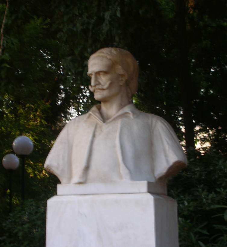 monument of Kitsos Tzavelas in Athens, own photo, Gepsimos 15:56, 14 May 2006 (UTC)